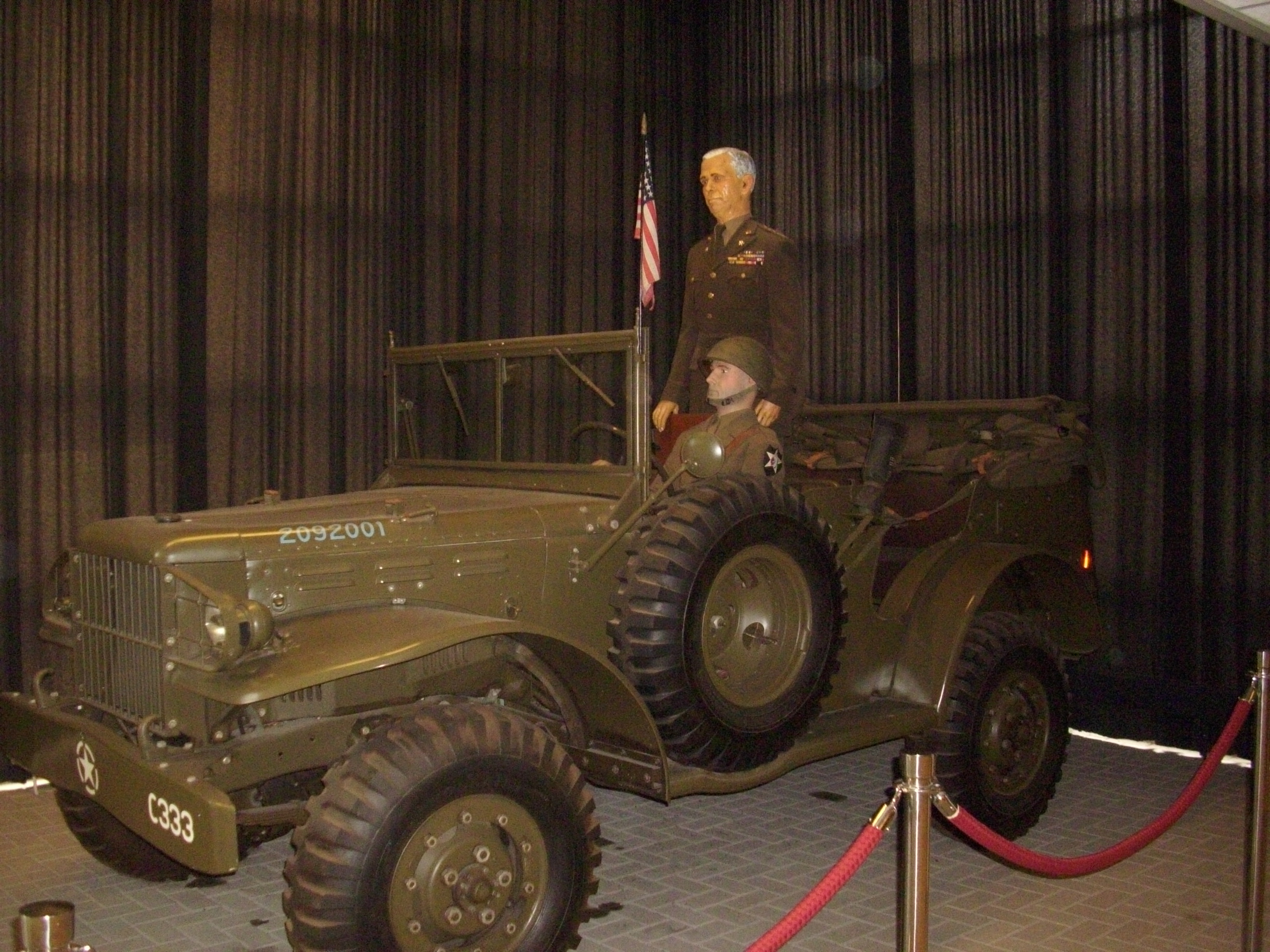 Diorama of George C. Marshall at Liberty Park, Overloon / NL